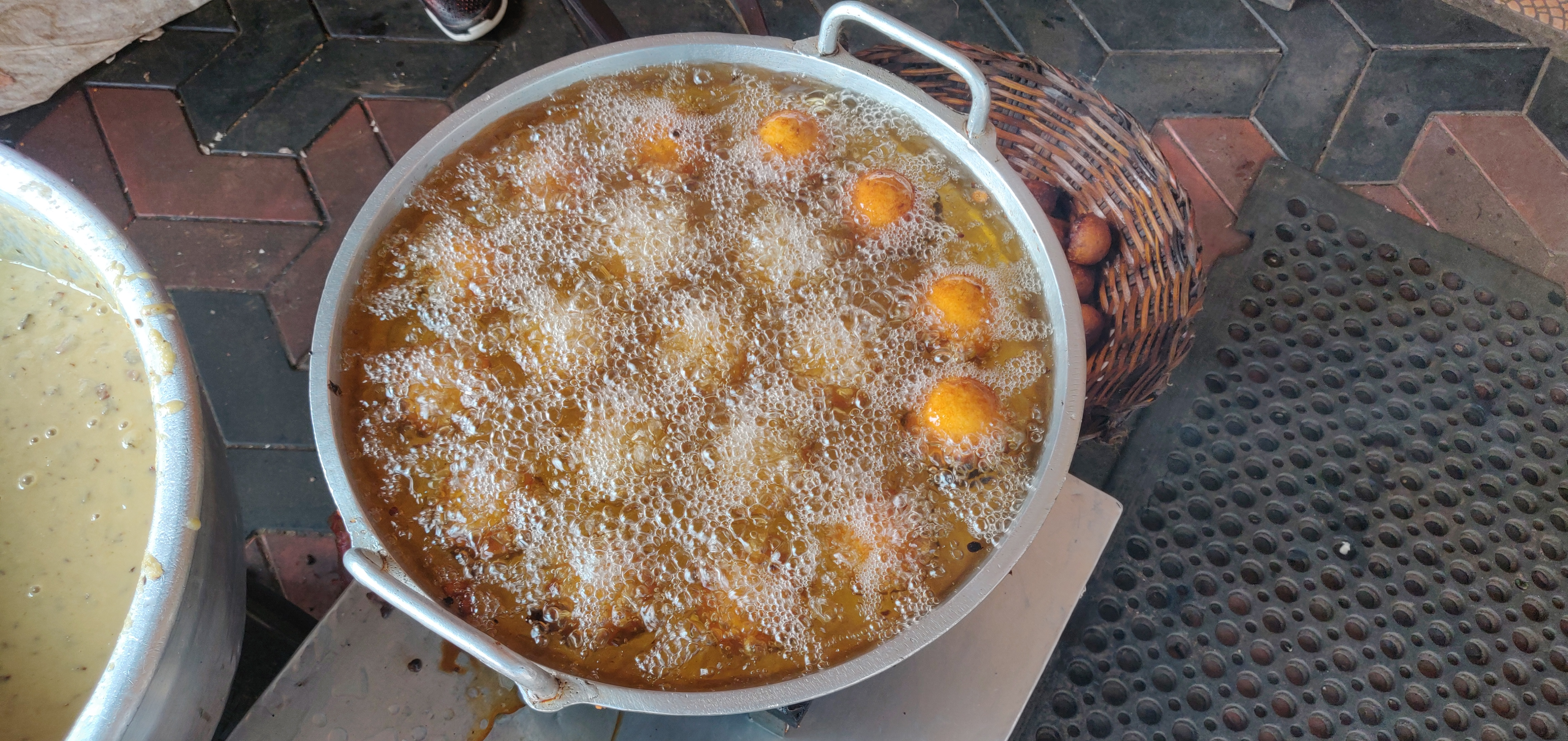 Unni appam frying in oil, Thrissur, Kerala, India